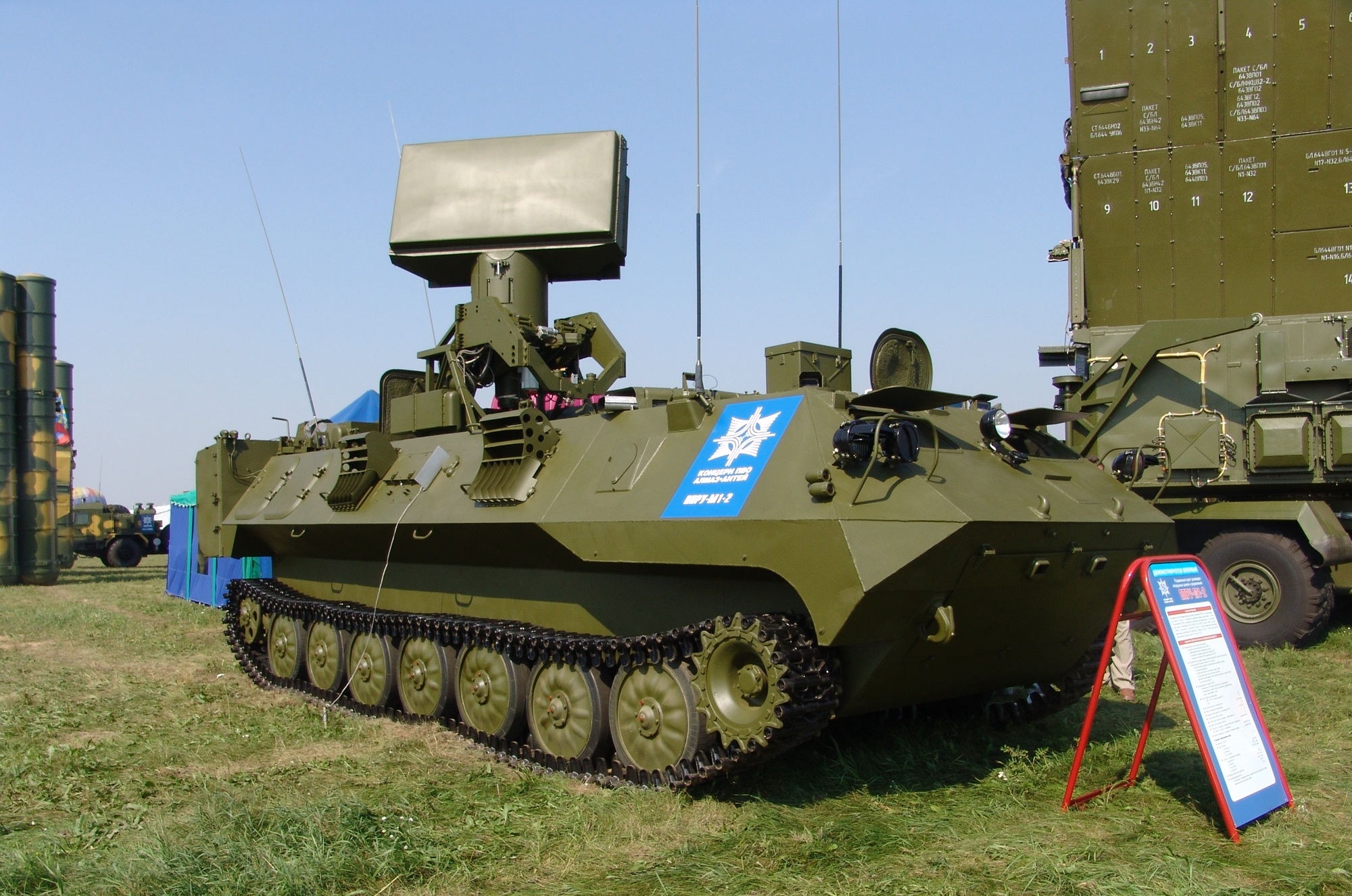 An radar system PPRU-M1-2 at the «MAKS 2007».